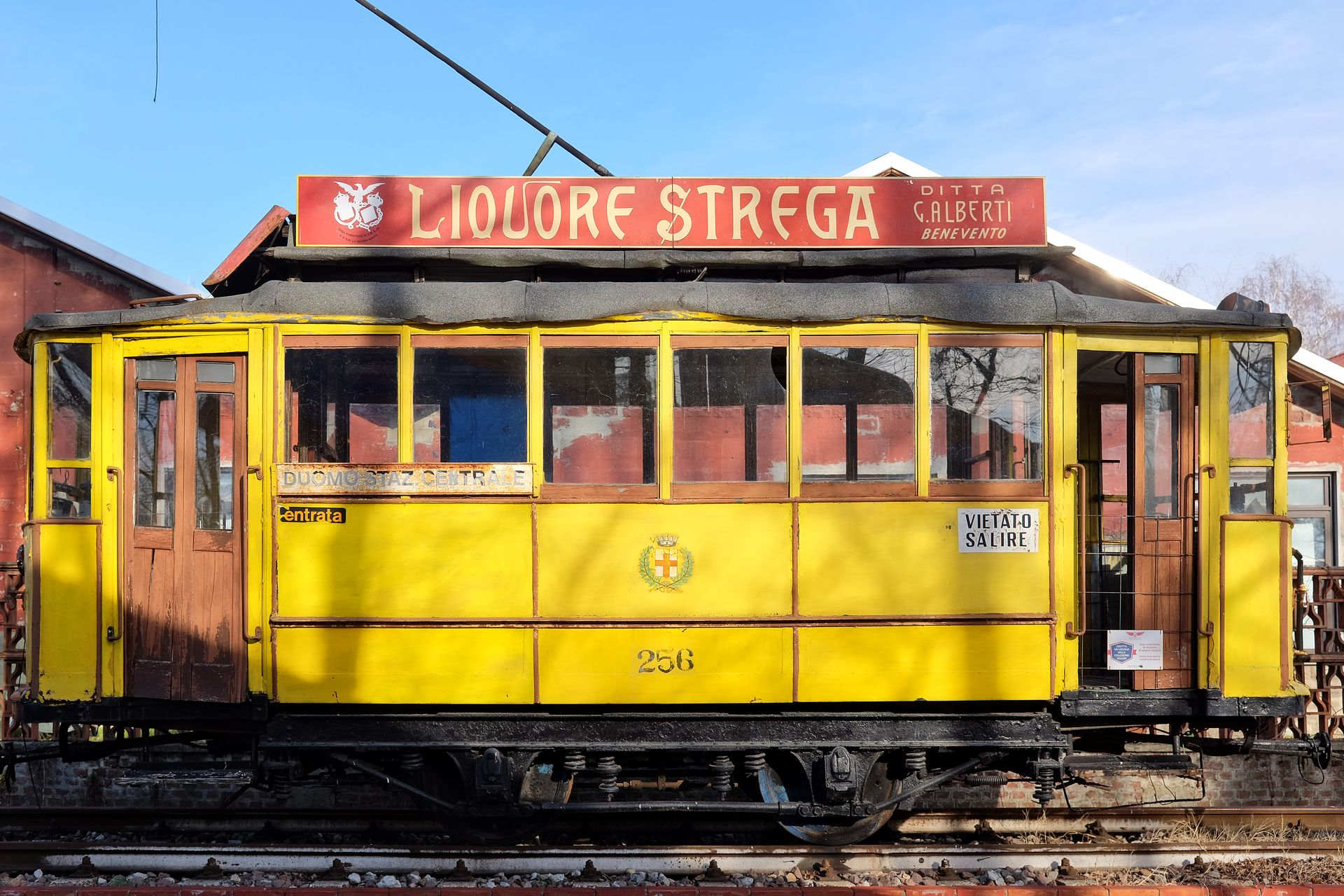 Lateral view of the Milan tramway type Edison, vehicle 256, at the Volandia museum in Somma Lombardo (Varese, Italy) in 2019, awaiting restoration.